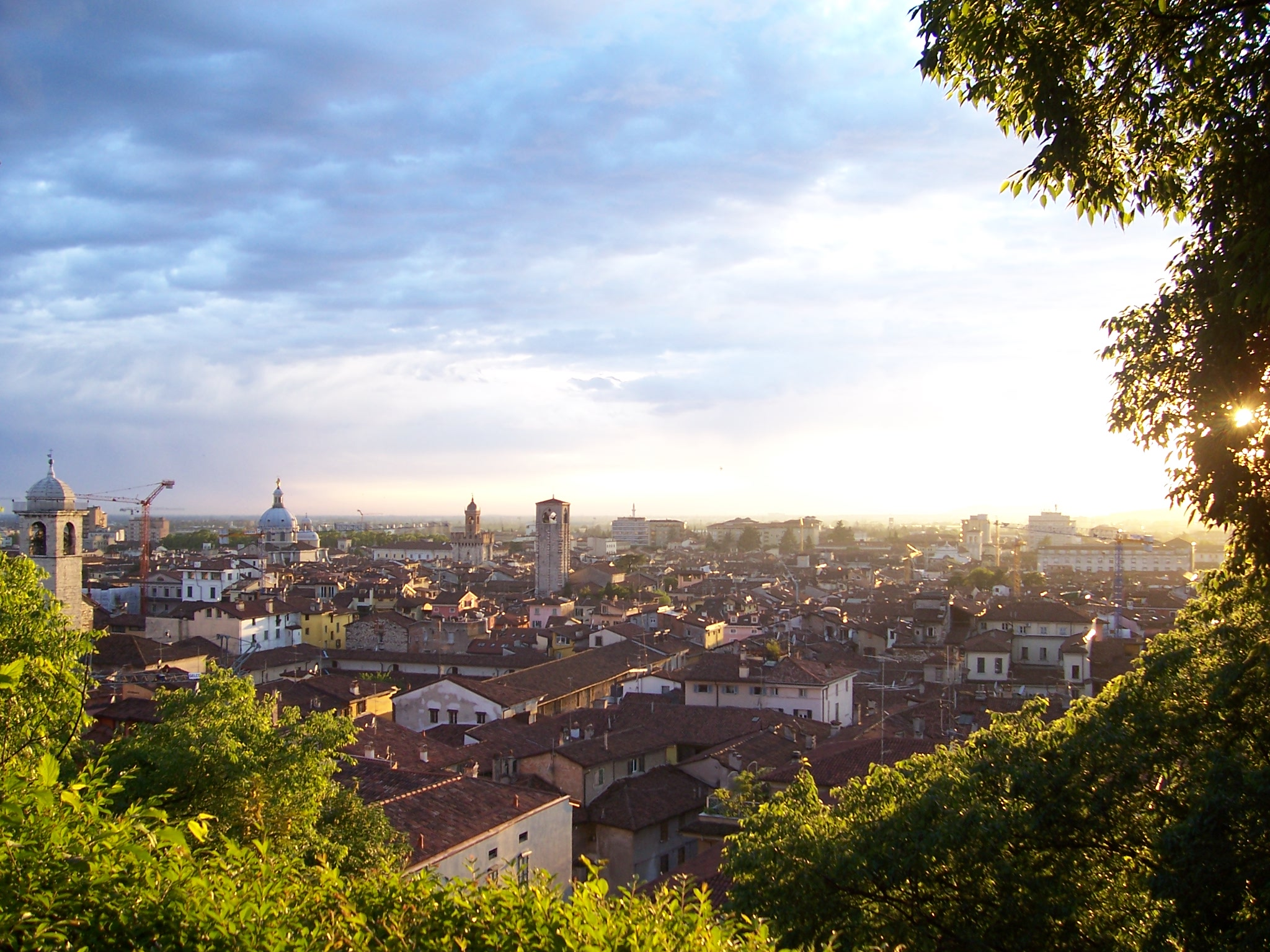 Brescia at dusk from the castle's hill.